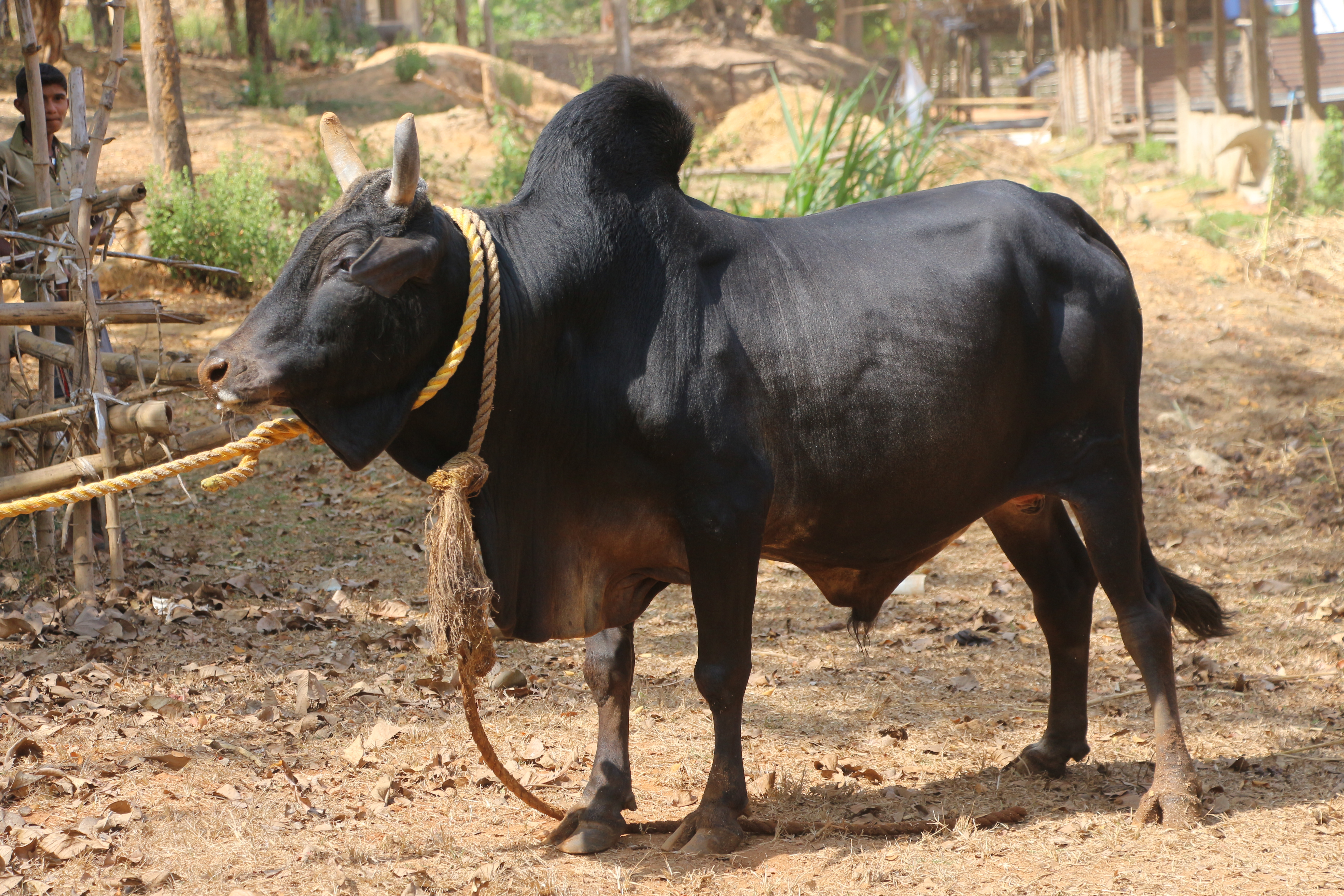 Indian cow breed Kenkatha ಕನ್ನಡ: ಭಾರತೀಯ ಗೋತಳಿ ಕೆಂಕಾಥ